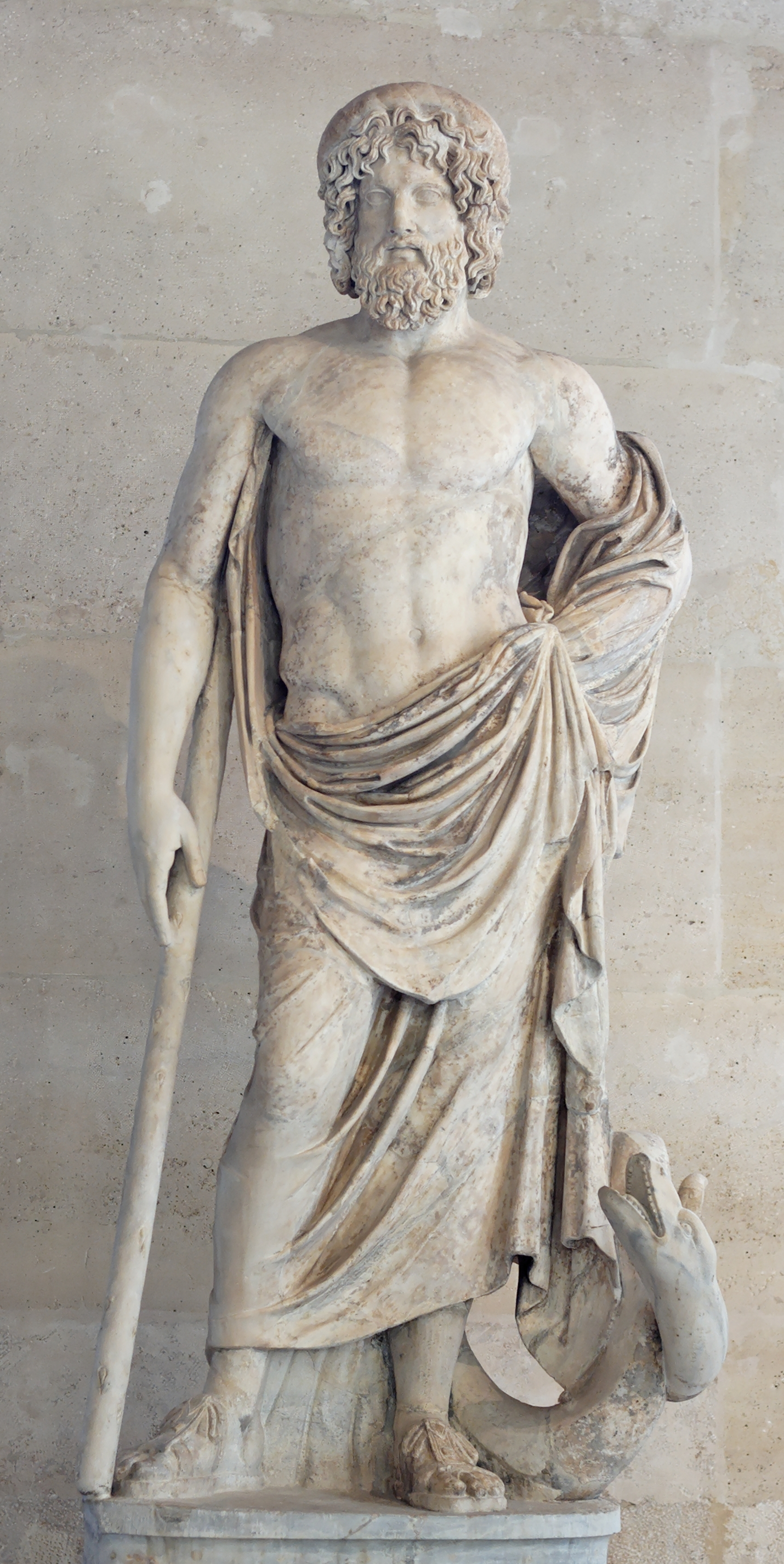 Asclepios, god of medicine. Marble, Roman copy (2nd century CE) of a Greek original of the early 4th century BC, restored by the workshop of Bartolomeo Cavaceppi (?) in the 18th century. Found in Italy.